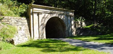 Staple Bend Tunnel, PA